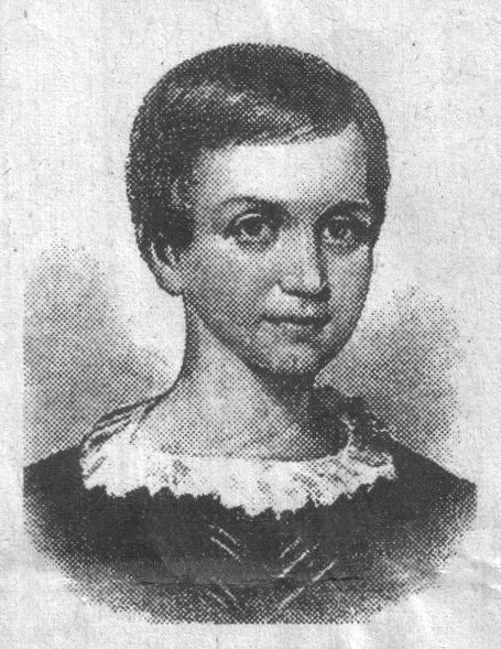 Drawing of American poet Emily Dickinson (10 December 1830 – 15 May 1886)